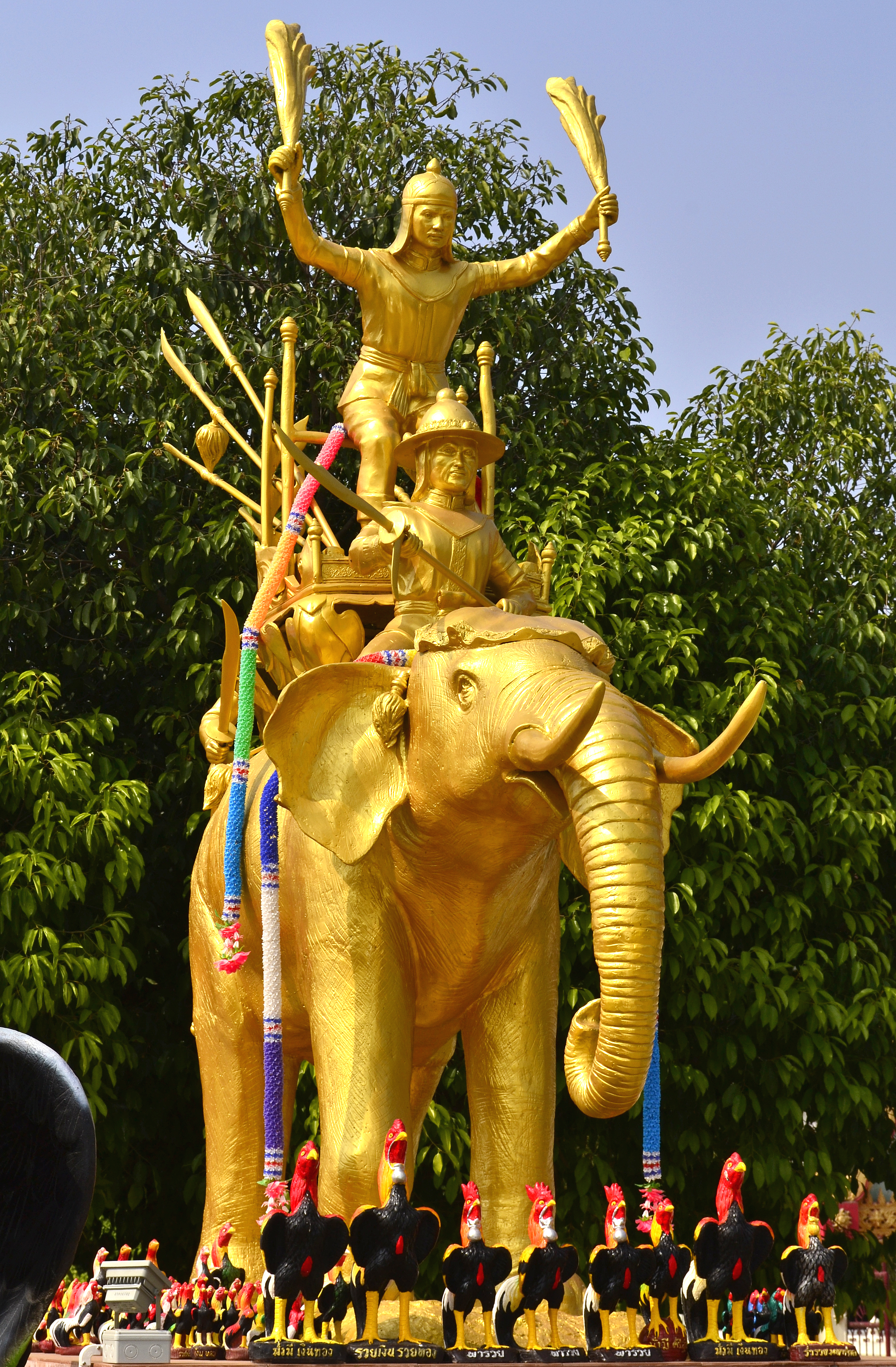 Wat Rat Satthatham im Tambon Pak Khwae, Amphoe Mueang Sukhothai